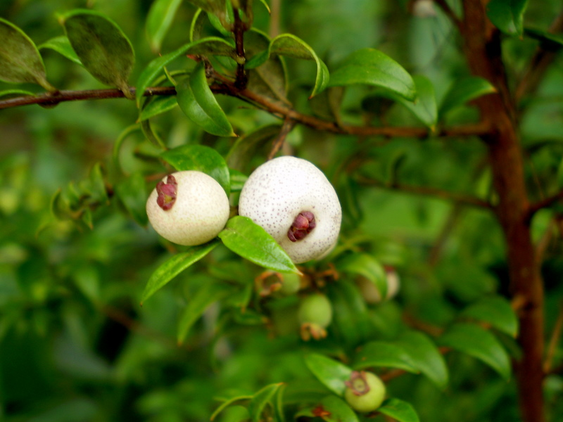 Austromyrtus dulcis, 'midgenberry', fruit.